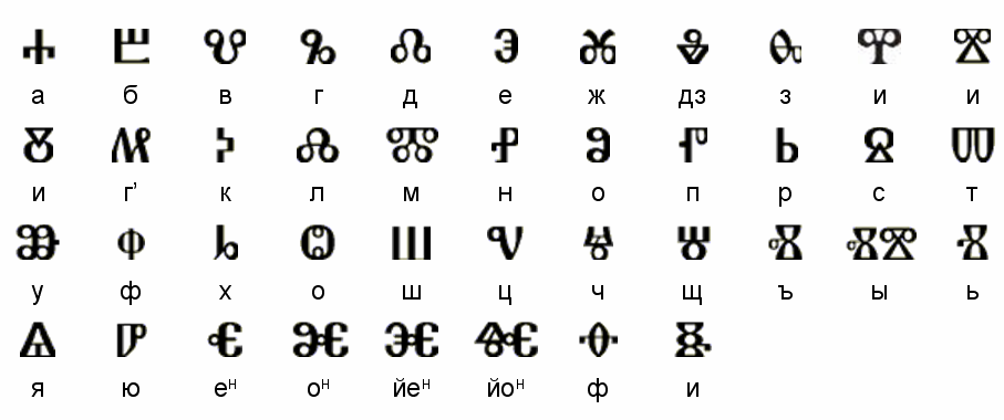 Glagolitic alphabet with the phonetical correspondence to the cyrillic alphabet